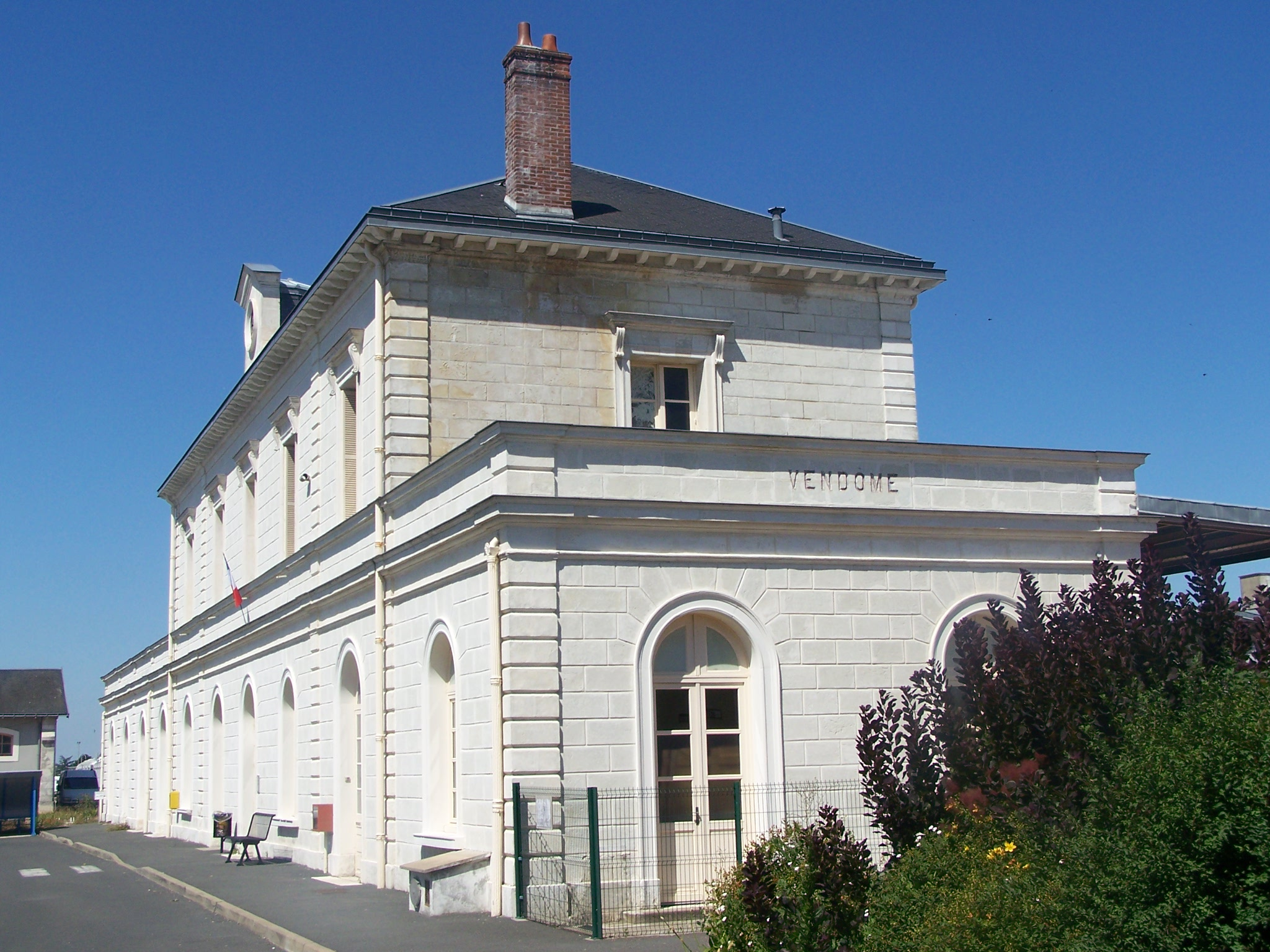 Building of city of Vendôme railway station, in Loir-et-Cher, France.